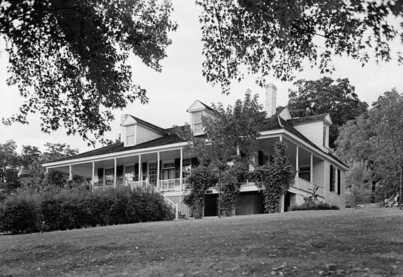 Pictures\Pierre Menard House, County Highway 6, Fort Gage (Randolph County, Illinois)(cropped)